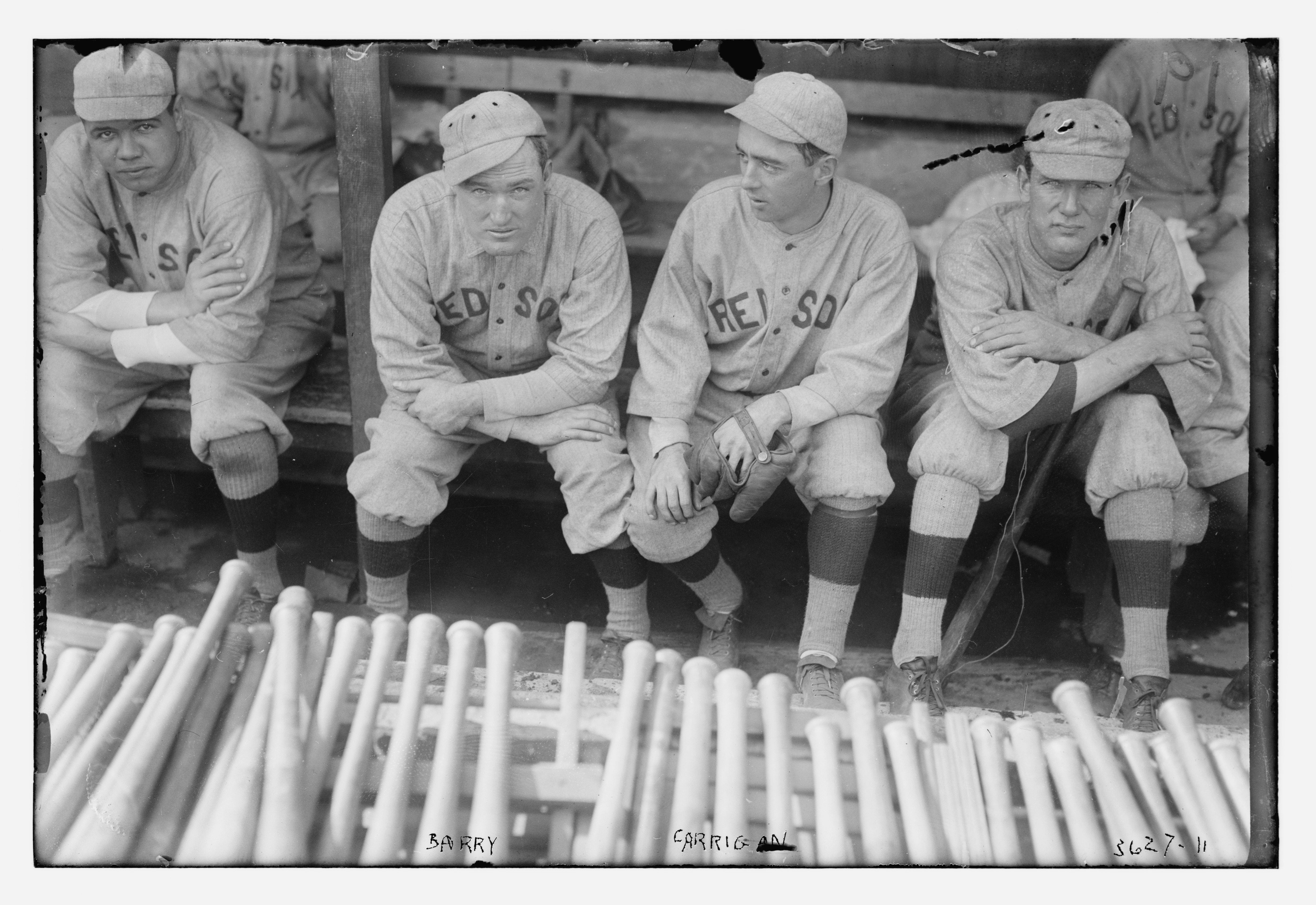 L to R: Babe Ruth, Bill Carrigan, Jack Barry, and Vean Gregg of the Boston Red Sox